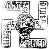 Stamp moscow gubernian soviet deputies 1917-22; Signet Moscow Province Council of Deputies R.S.F.S.R.